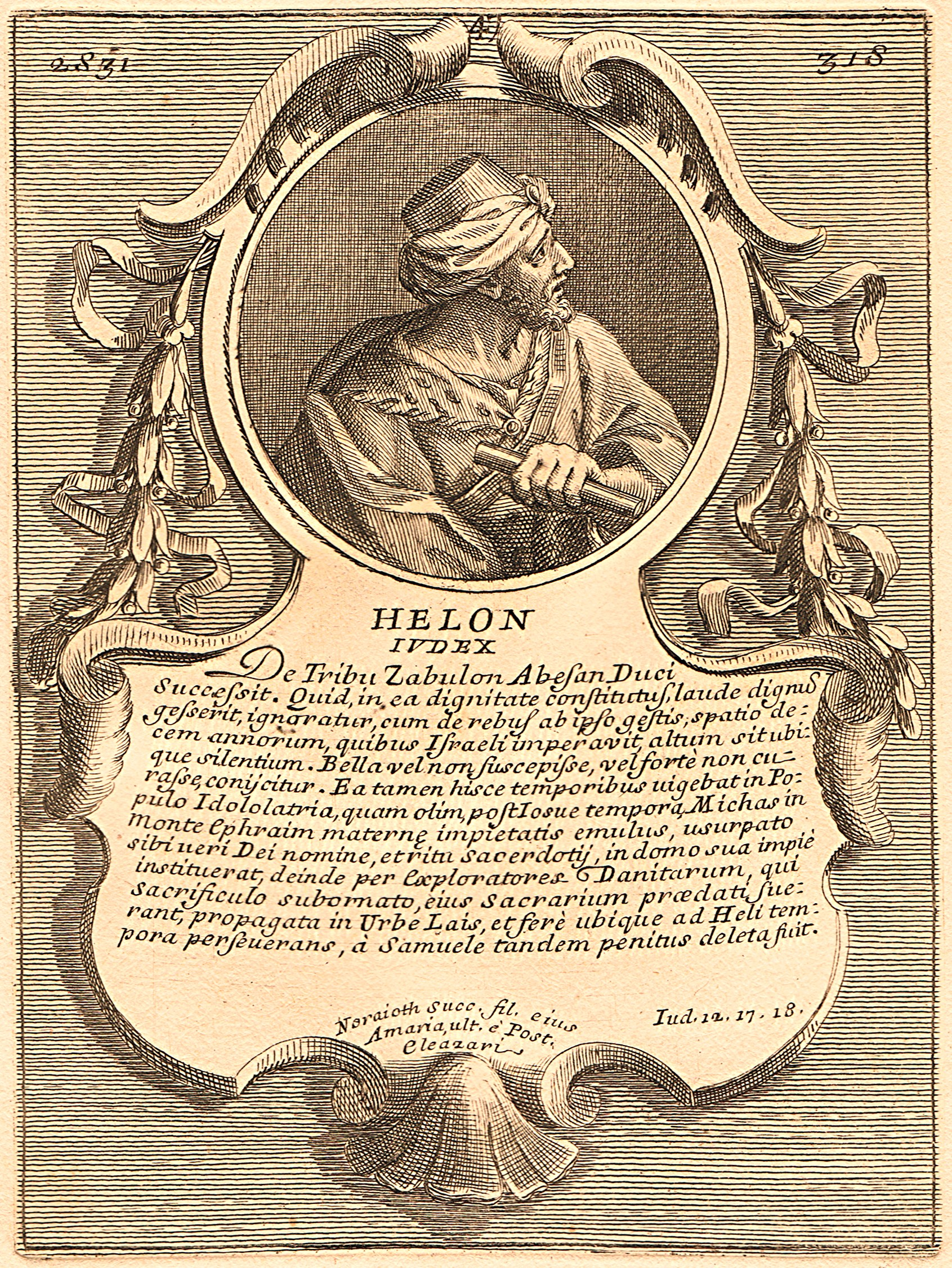 Fragment from Historical Chronology of the Deeds of all Patriarchs, Leaders, Judges, Kings, and Priests of the Hebrew People: Rome; 1751; p. 318.